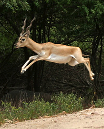 cropped image of Blackbuck (Antilope cervicapra) in Hyderabad